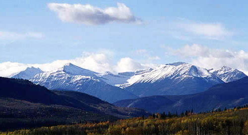 Mount DeVeber and adjacent peaks in Willmore Wilderness Area, Alberta, Canada.